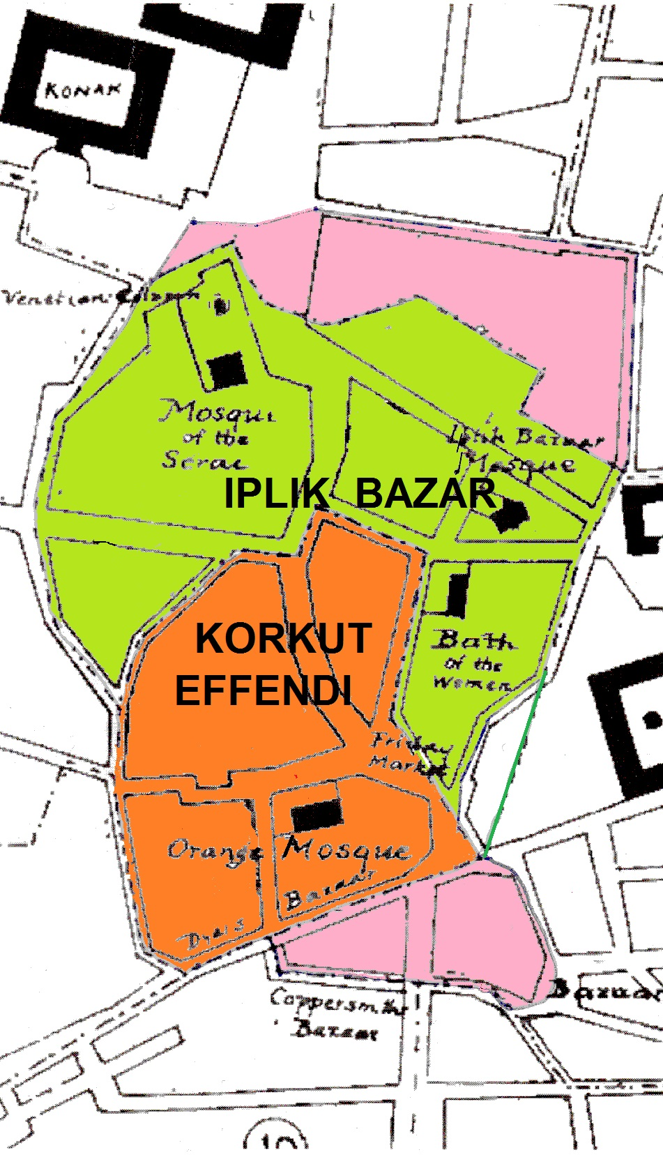 Map of Iplik Bazar and Korkut Effendi Neighbourhood, Nicosia, showing the two formerly separate neighbourhoods Green: Iplik Bazar Orange: Korkut Effendi Pink: Other areas in the combined quarter of Iplik Bazar and Korkut Effendi